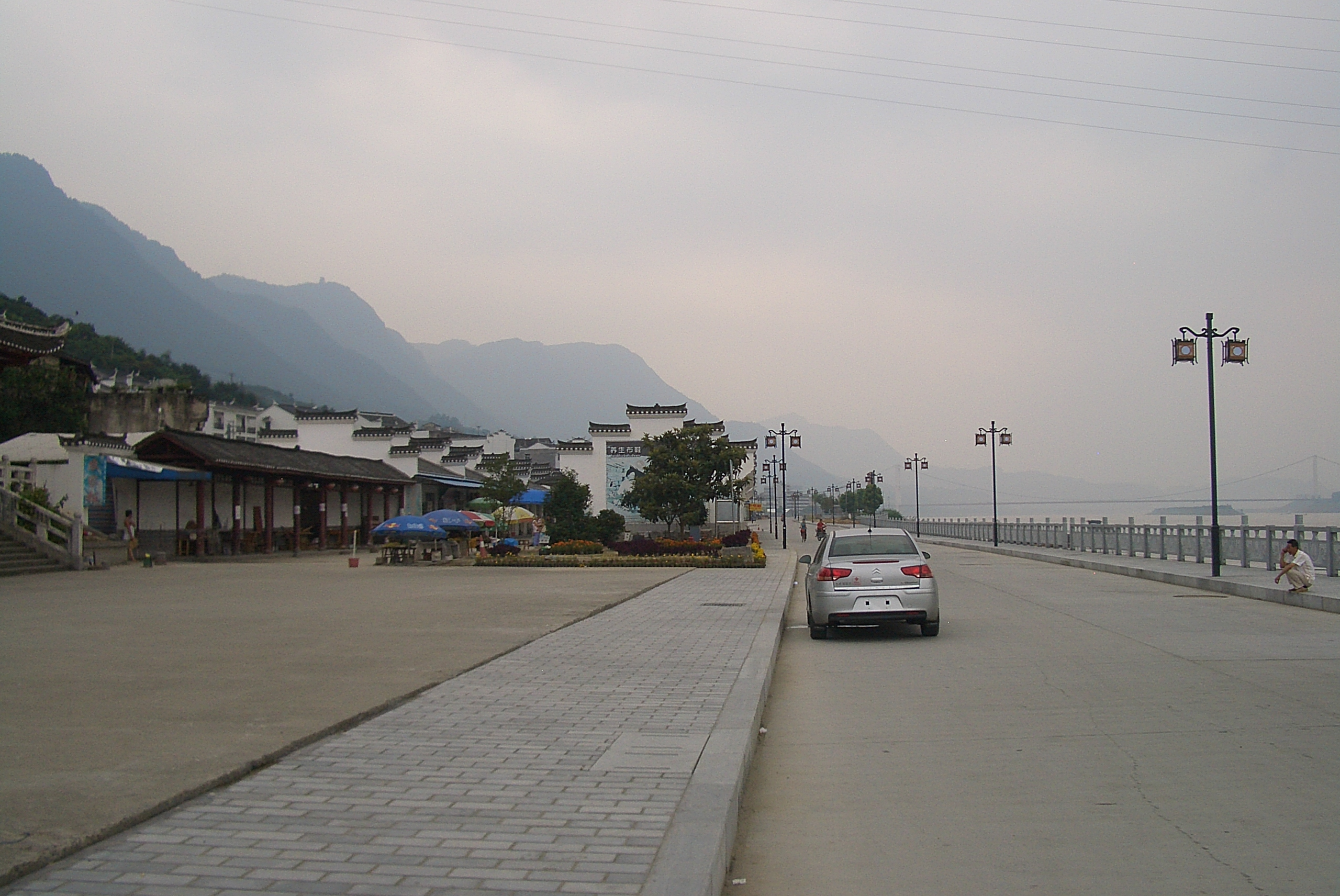 Sandouping waterfront. This is on the far eastern, "touristy" end of the town, maybe 10 km downstream from the Three Gorges Dam. Looking west, toward Xiling Bridge and the (not really visible because of the fog) Three Gorges Dam